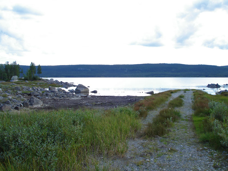 Lake Storjuktan by the old road on the eastern side. Here the road formerly crossed the river Juktån, but when Storjuktan was dammed the road was submerged and had to be moved.